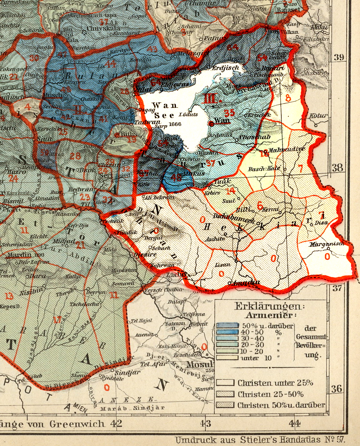 The Armenian population in historical Armenian regions in the year 1896. The Armenian population in represented in the coloured areas, as well as in the red Arabic numbers, indicating their exact percentage.